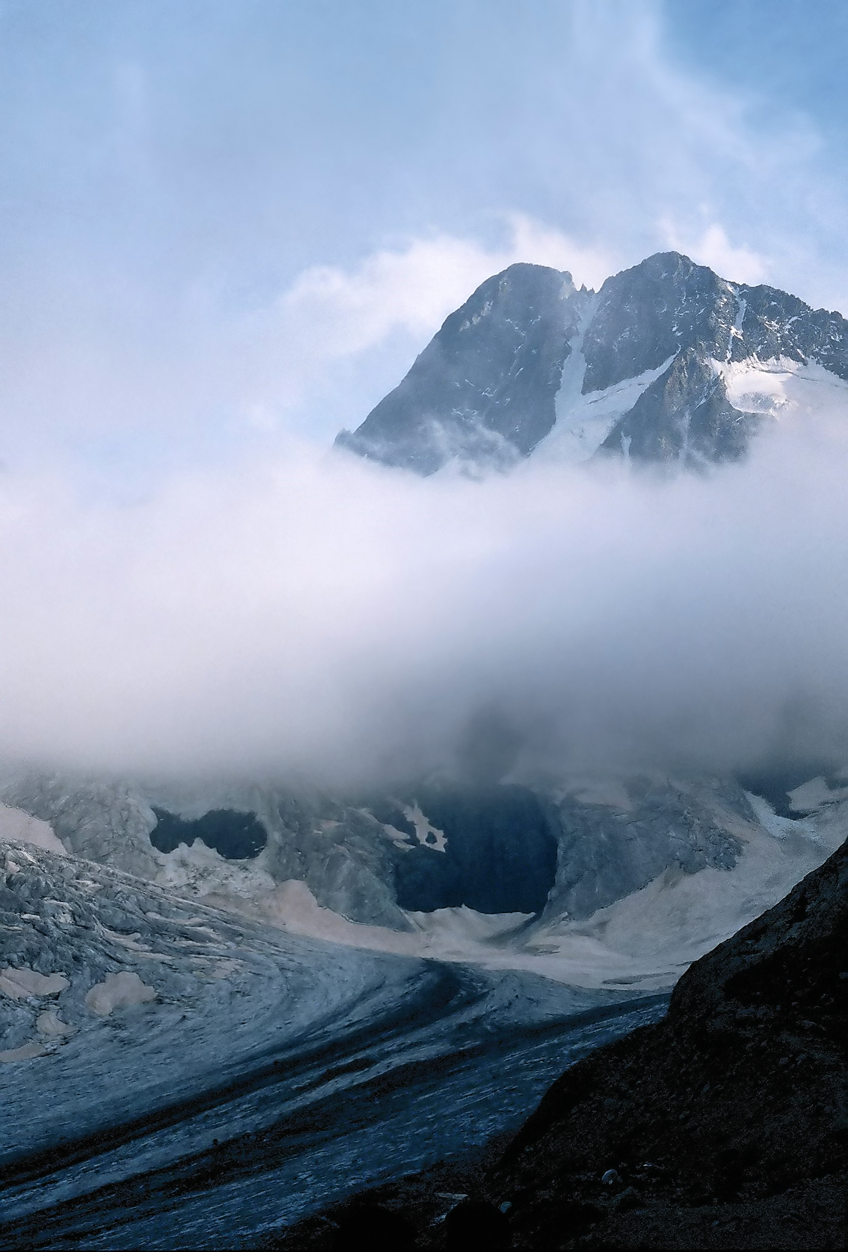 Les Bans (3,669 m), north face, from the Pilatte hut, massif des Écrins, France. Down is the Pilatte glacier. Slide made with a Canon T70, then digitalized.